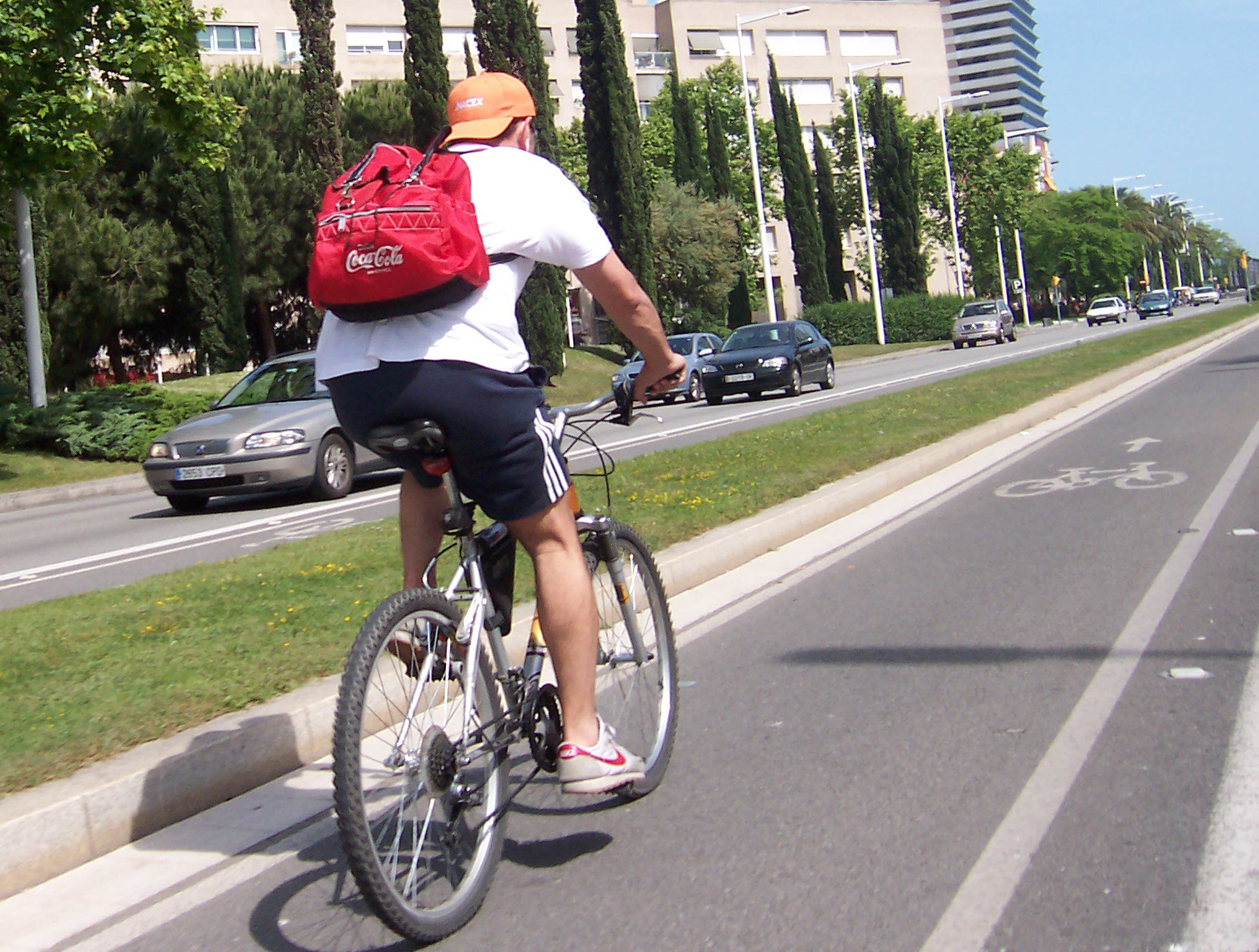 Bike path, in Barcelona.